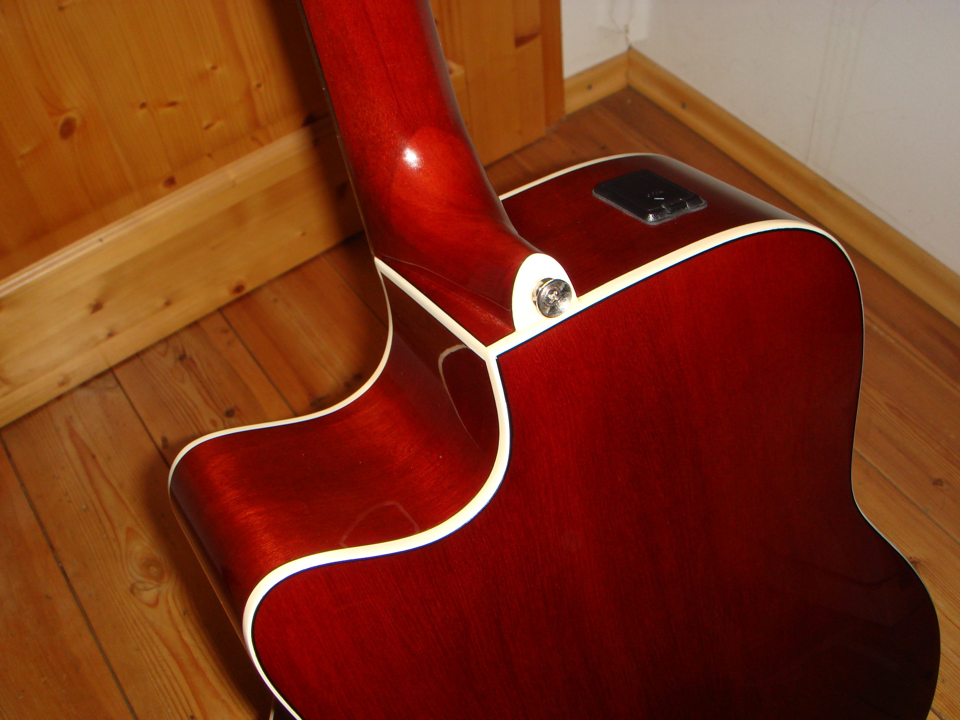 Nato-Body Yamaha FX370C